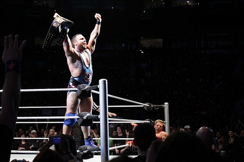 United States Champion Santino Marella